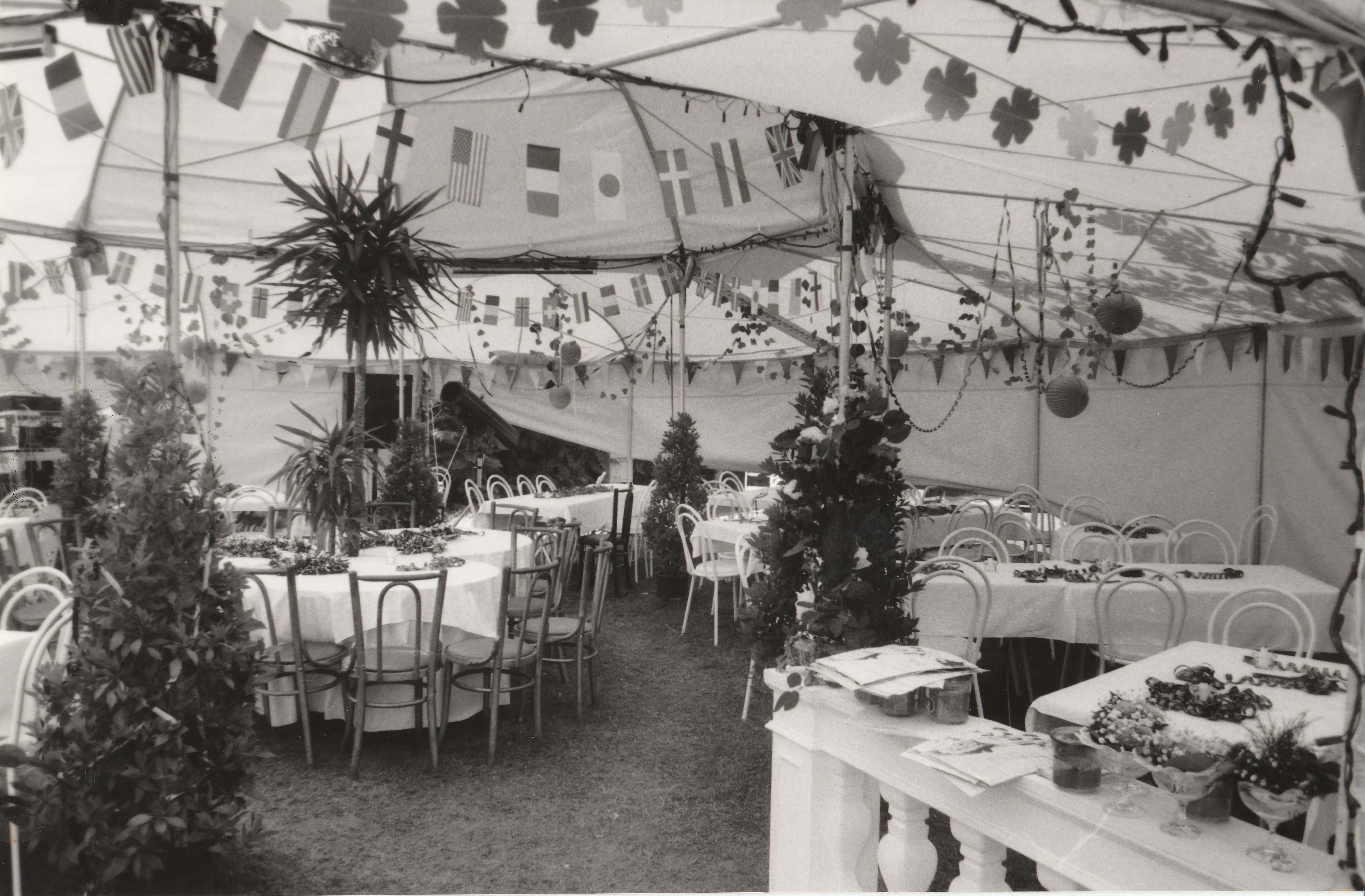 Aquarium (Nightclub) Ulm